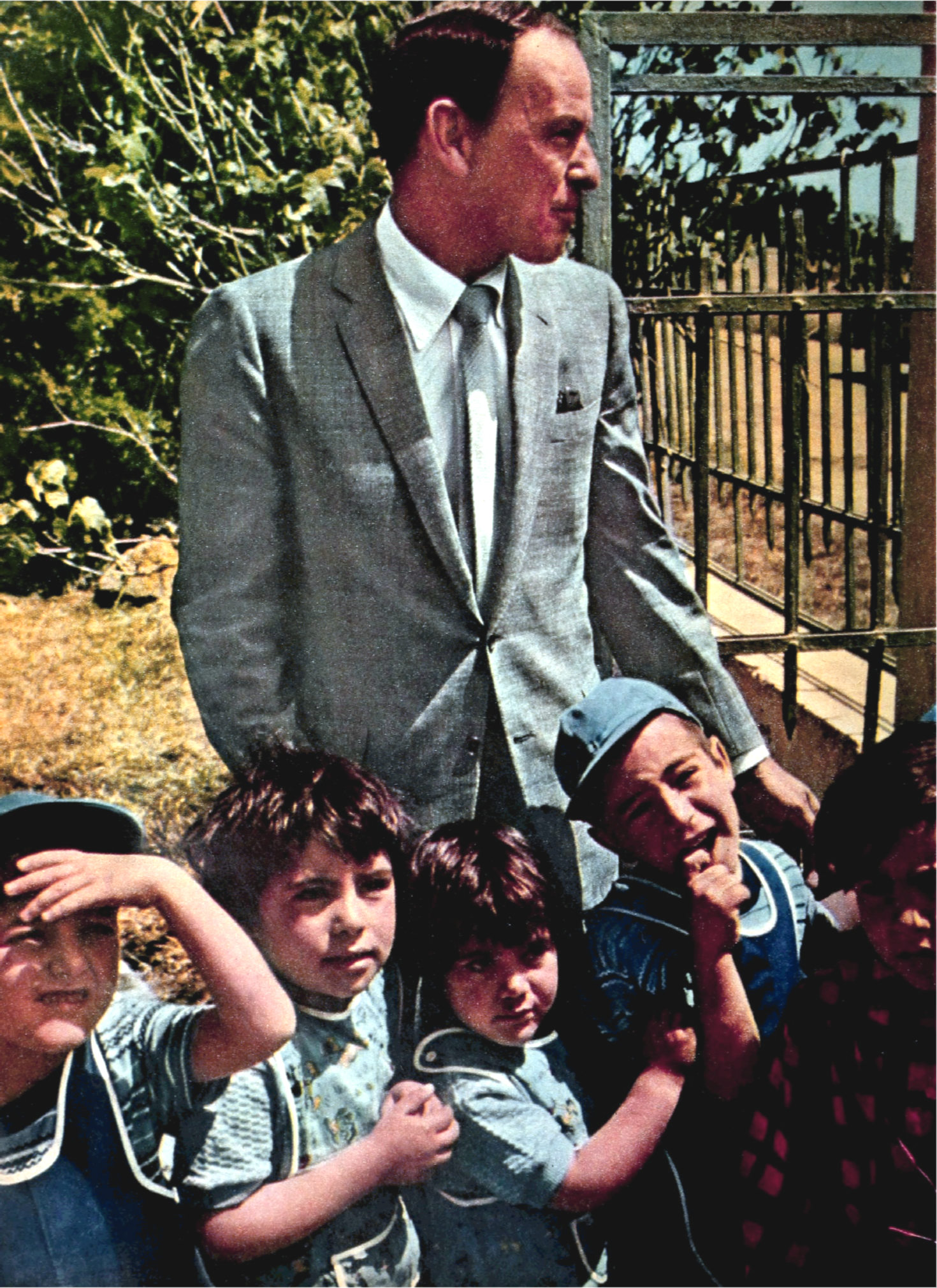 Photo of Frank Sinatra with Israeli children during a 1962 visit to Israel.